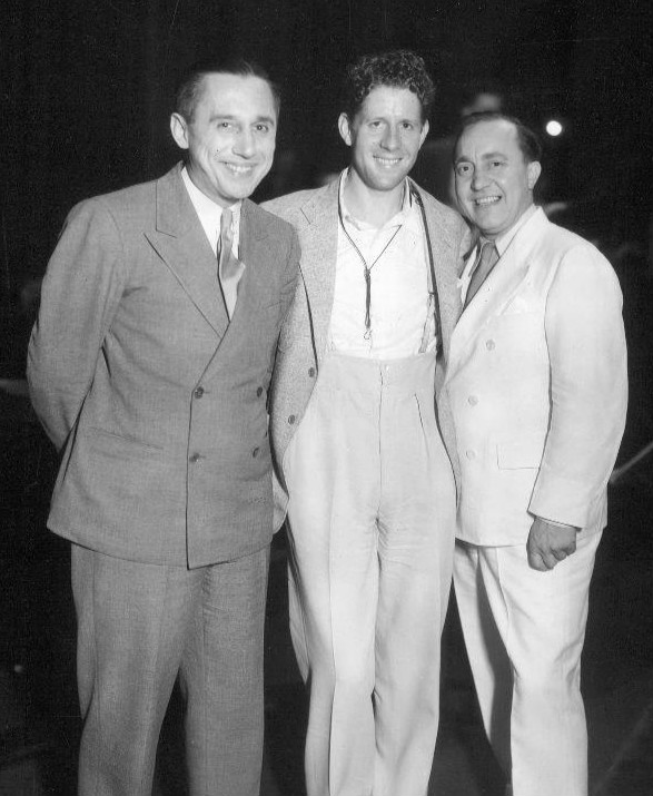 Photo of Rudy Vallee with comedians Ole Olson (left) and Chic Johnson (right) from Vallee's radio program The Fleischmann's Yeast Hour.